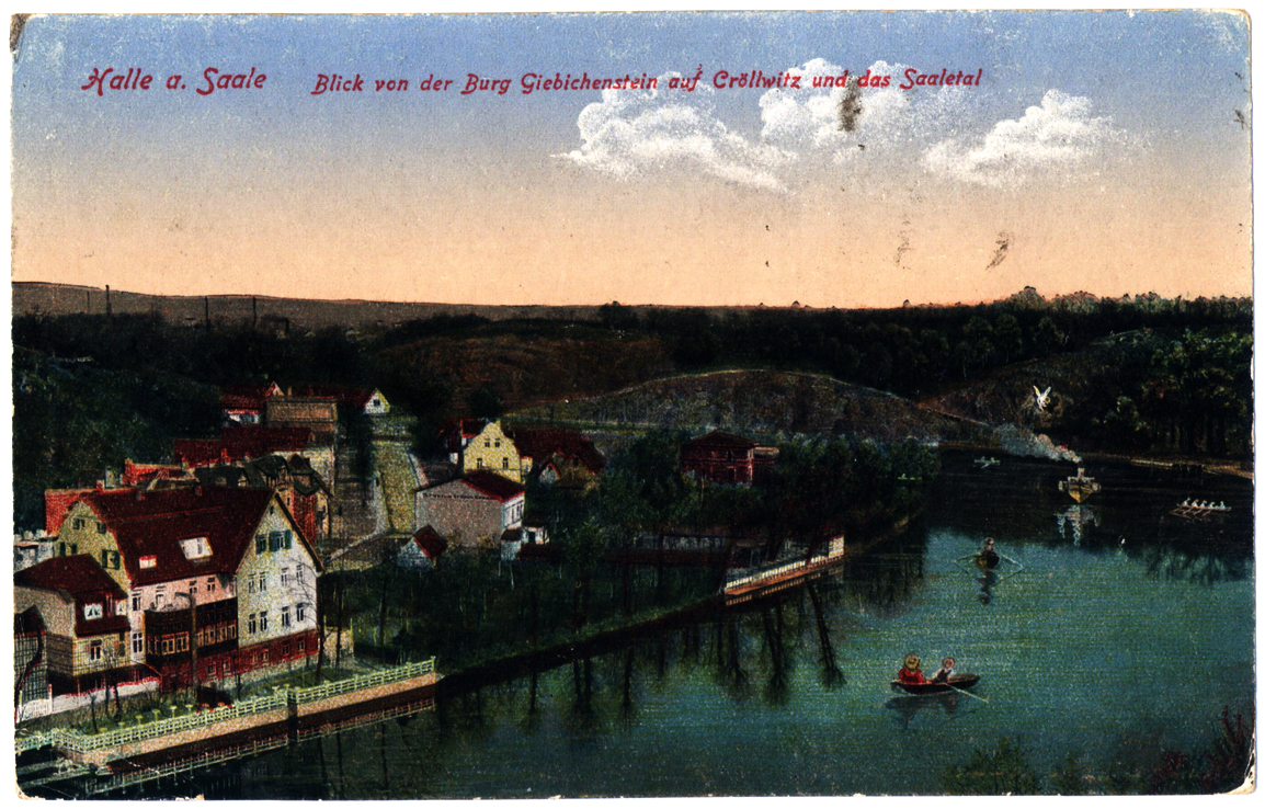 Postcard of Halle (Saale)